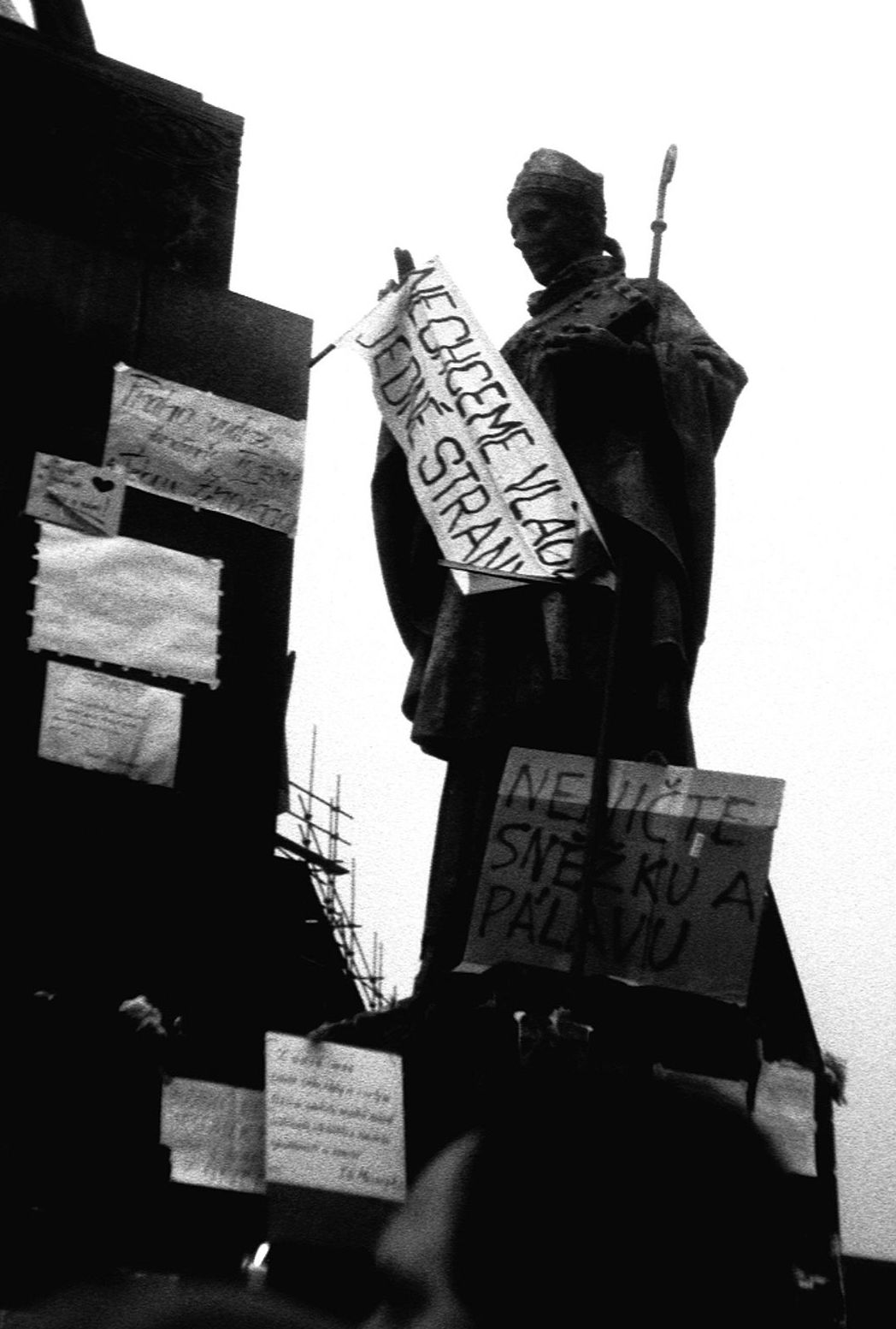 Prague, Wenceslas Square during the Velvet Revolution.